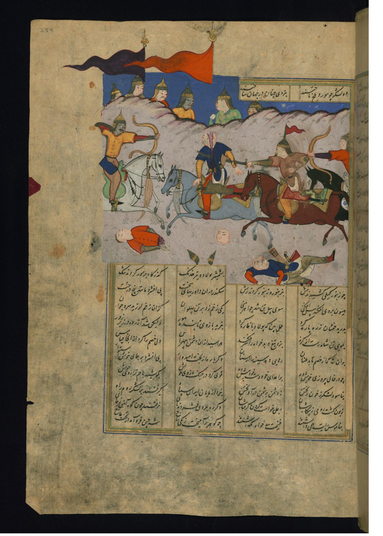 On this folio from Walters manuscript W.608, Alexander the Great defeats the army of the Persian king, Darius.